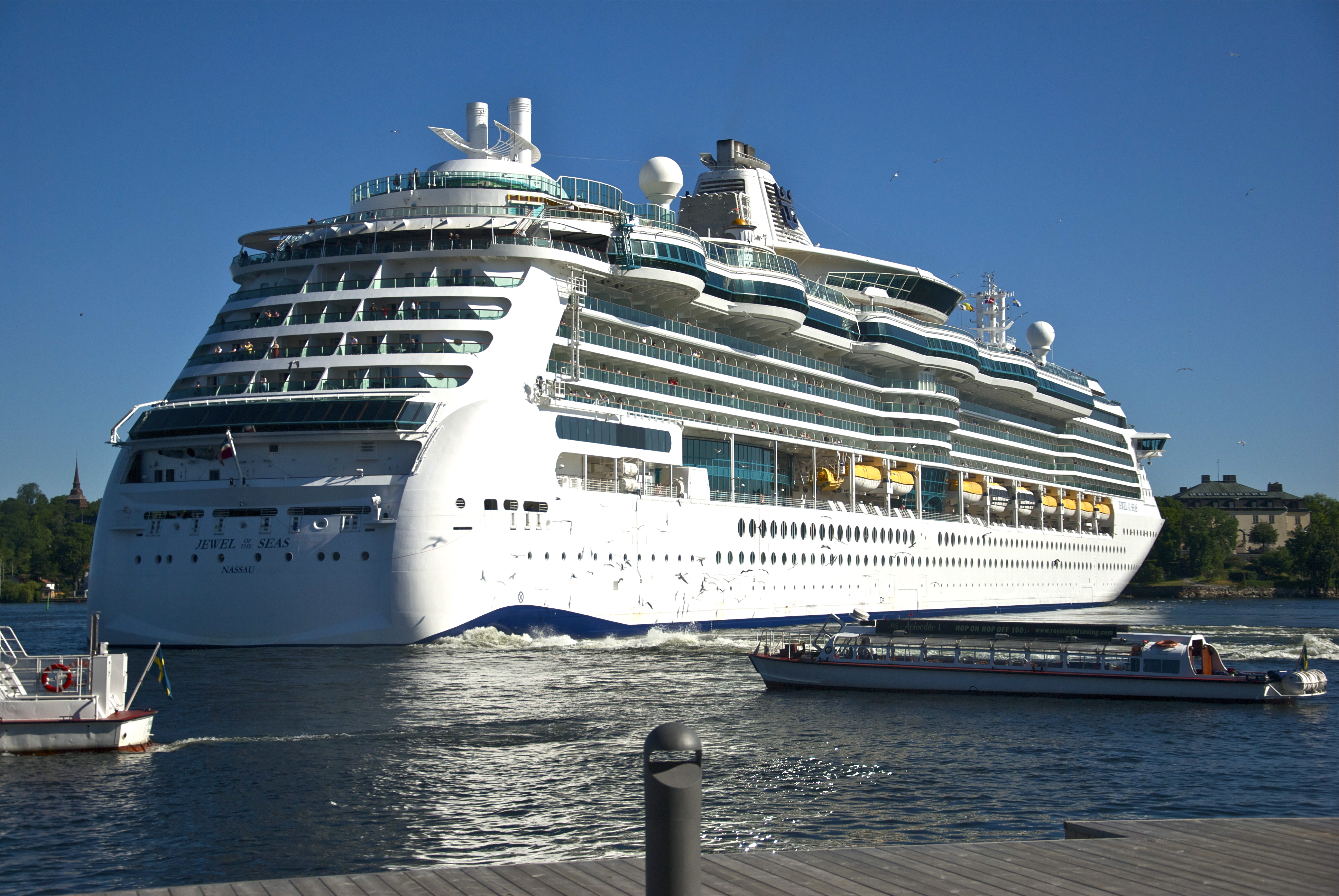 Jewel of the Seas in Stockholm June 2011